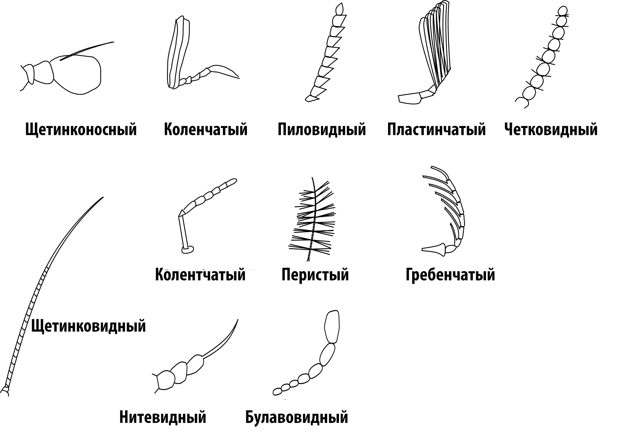 Insect antennae types